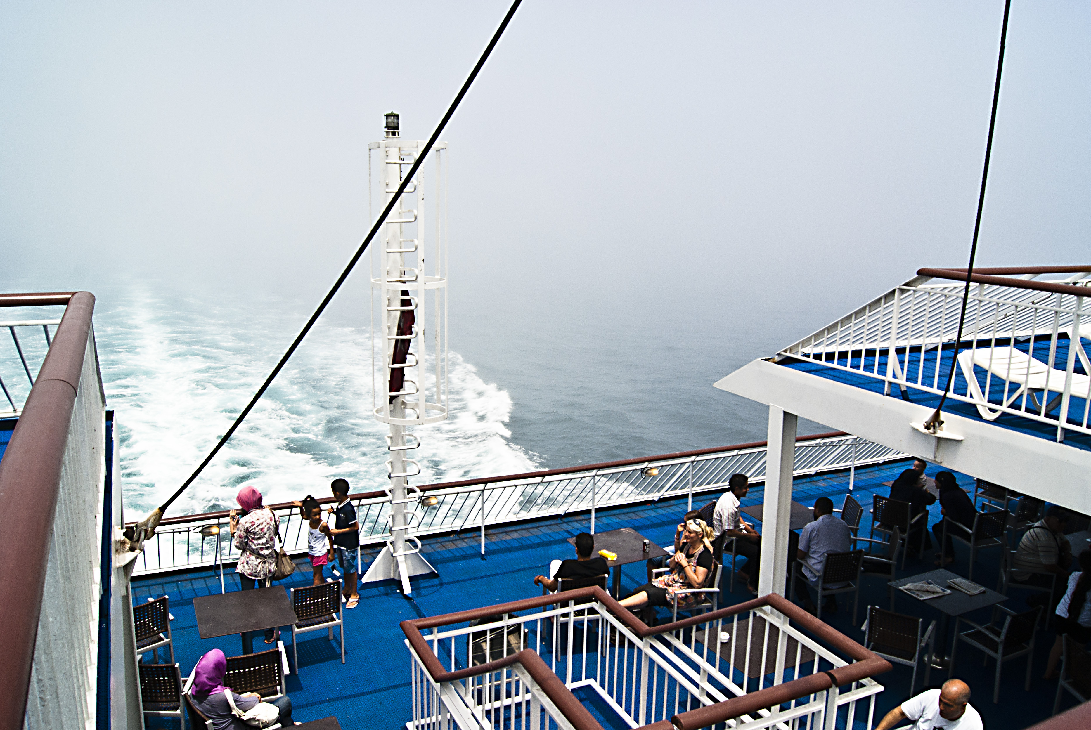 Balearia ferry in the Gibraltar Strait between Algeciras and Sebta.